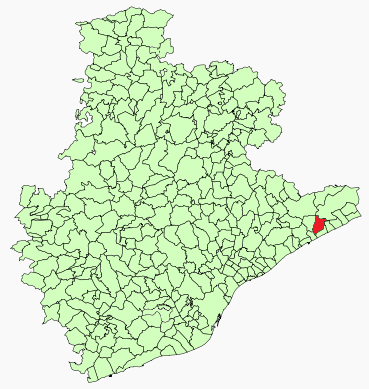 Sant Cebrià de Vallalta